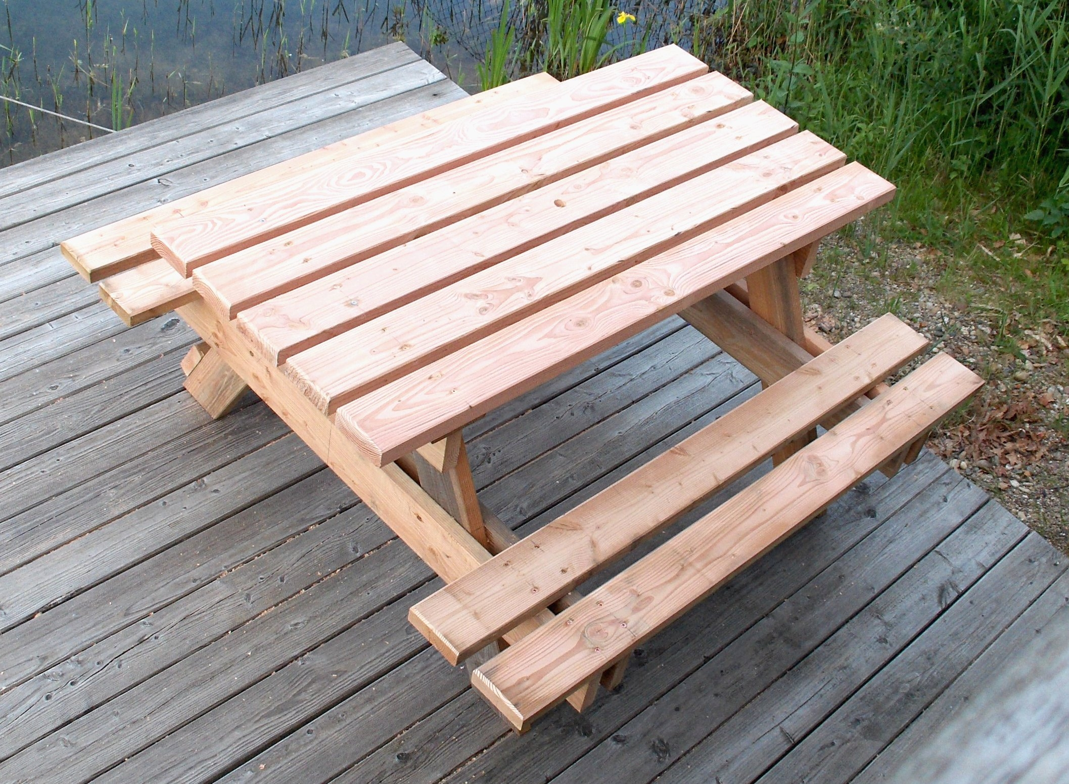 Picnic table - combined table and benches, often used in gardens and at camping sites